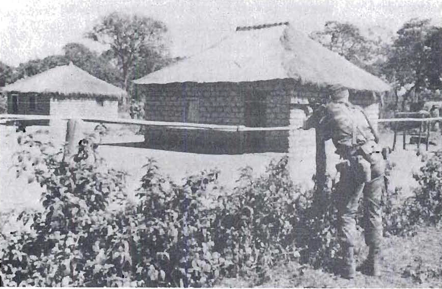 French sniper in Kolwezi during the Shaba II conflict.